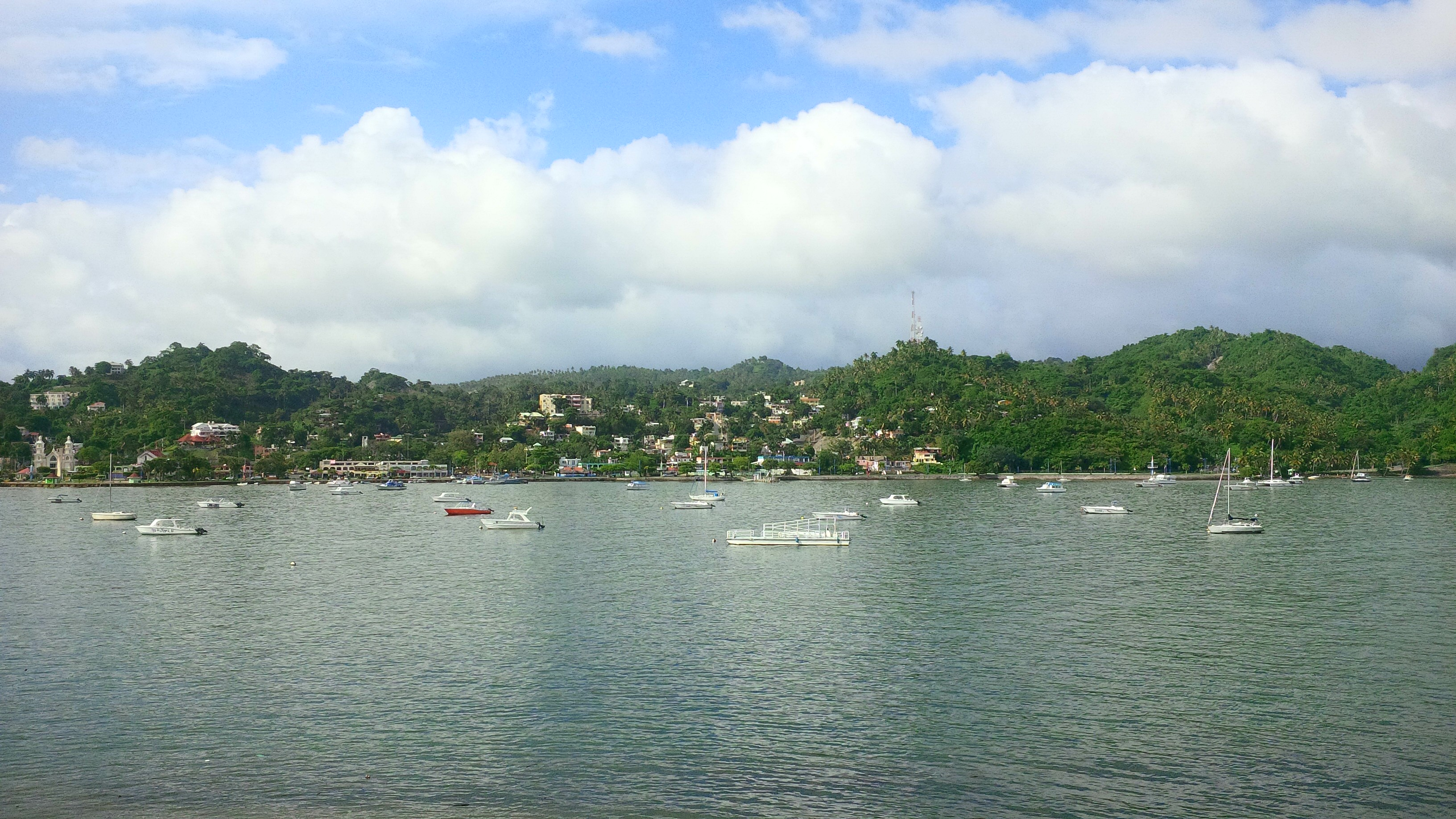 Santa Bárbara de Samaná - town view from the Brug Samana van Leona